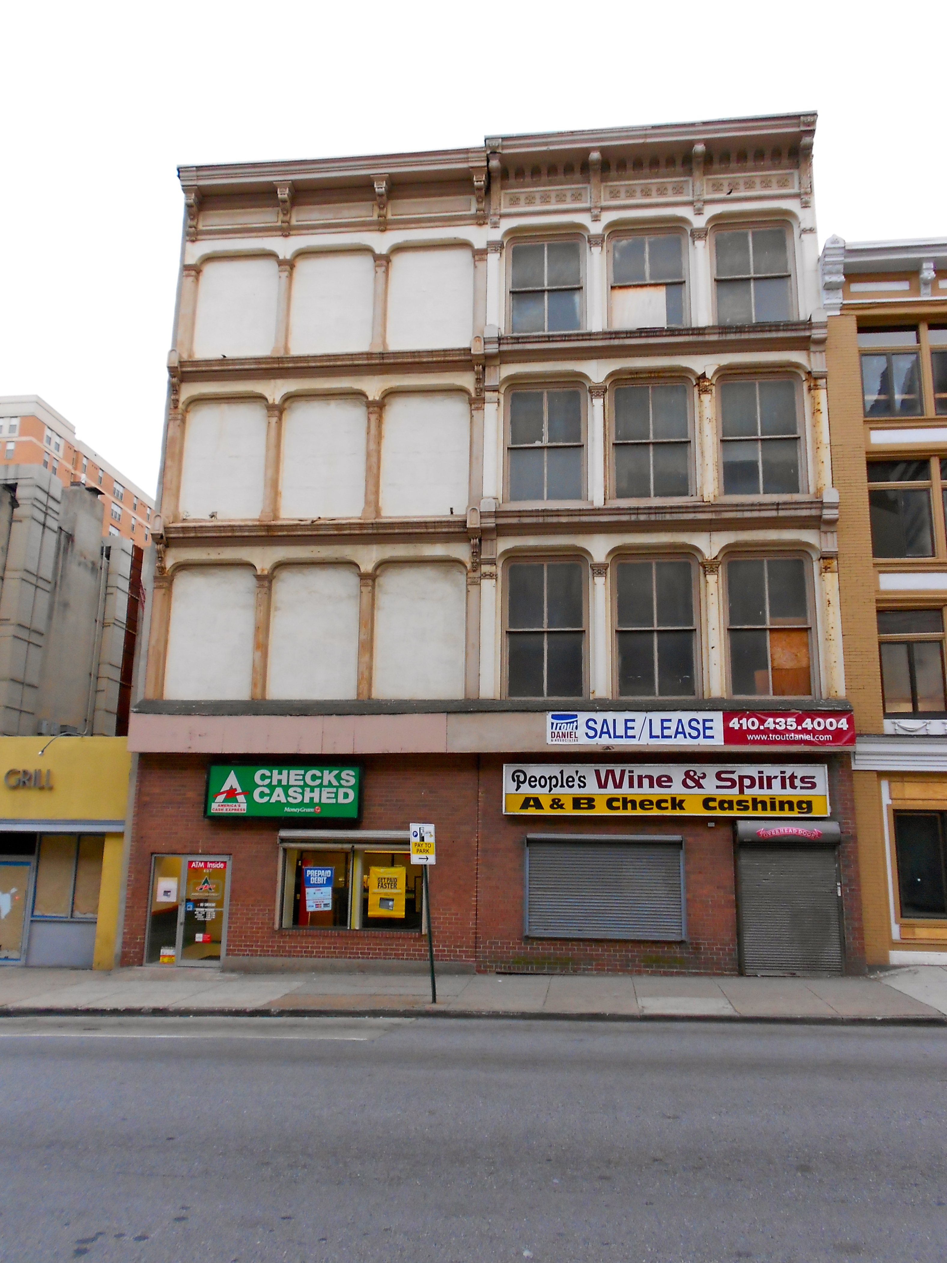 407 (left) and 409 Baltimore Ave, Baltimore Maryland. Listed separately on the NRHP for cast iron fronts. 407 visible on door right below "ATM inside"